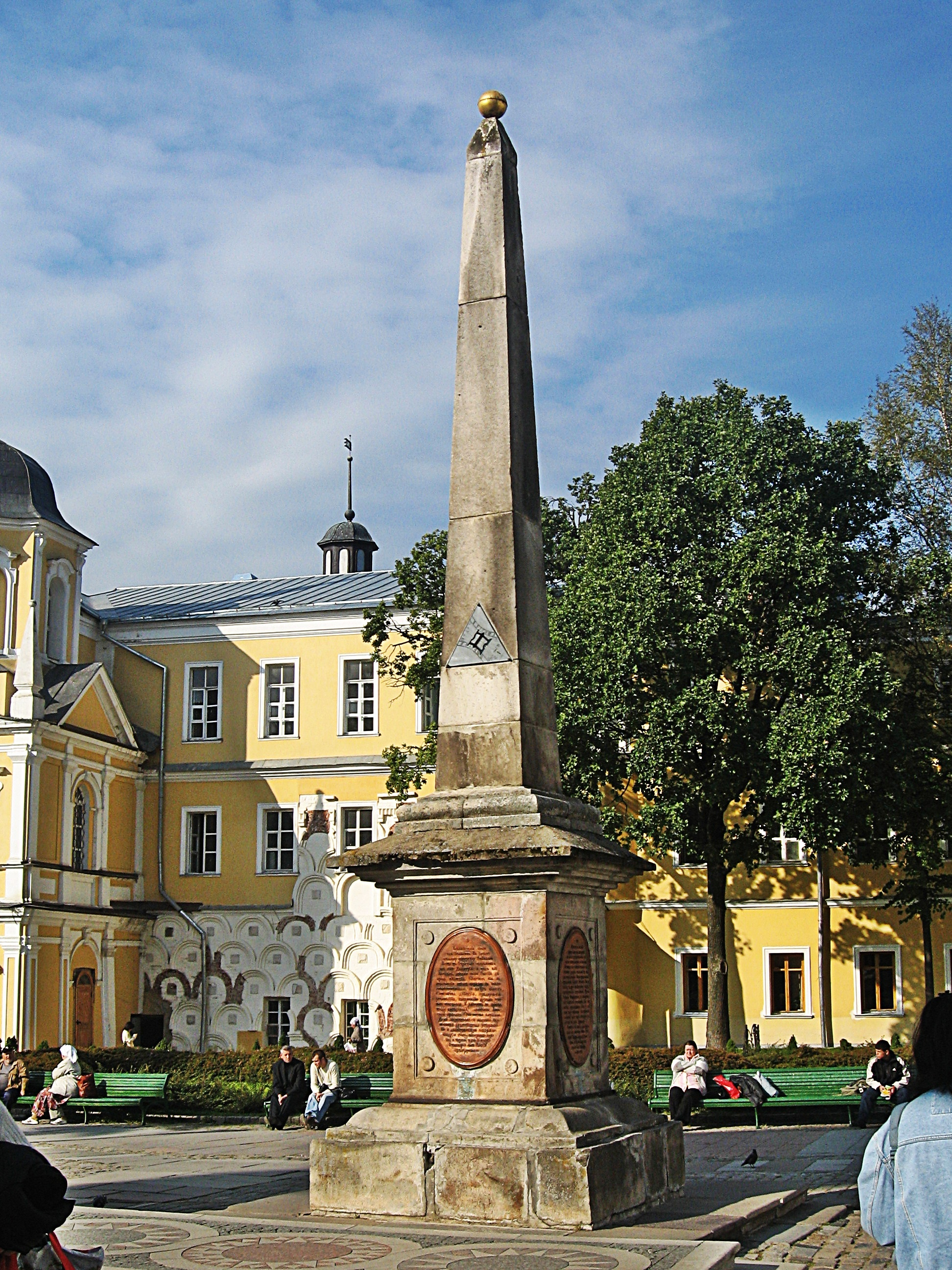 monument